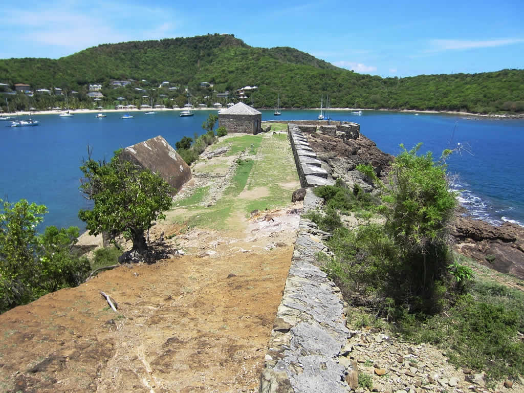 Fort Berkeley (1704) guards the western entrance to English Harbour near Nelson's Dockyard, Antigua